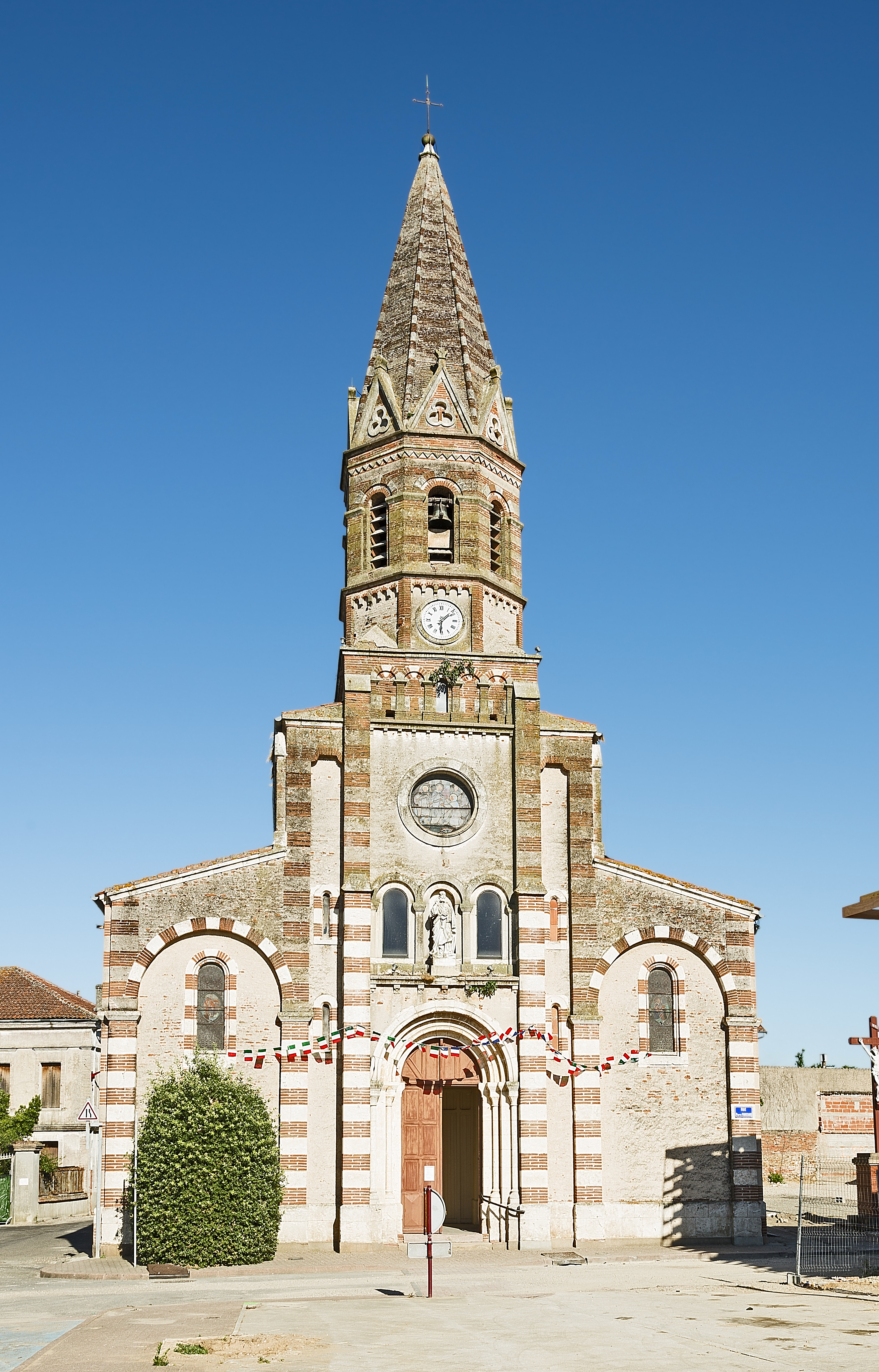 Labastide-Saint-Pierre, Tarn et Garonne, France. The church Saint-Pierre-ès-Liens.